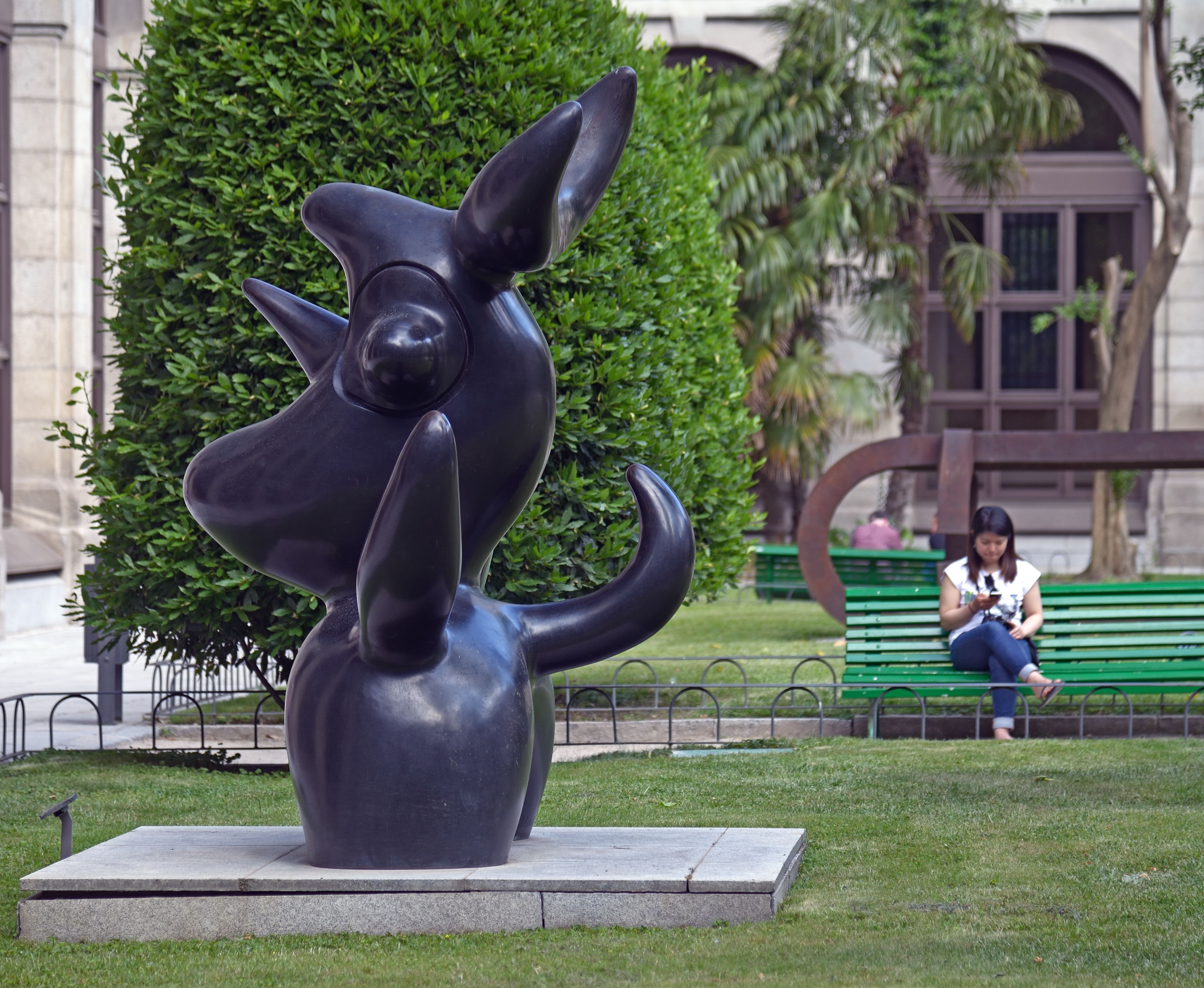 Lunar Bird by Joan Miró in the Patio of the Reina Sofía National Art Center Museum. 2017